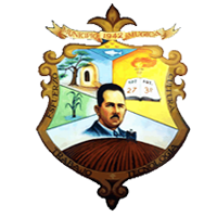 Escudo del Ayuntamiento de Mugica